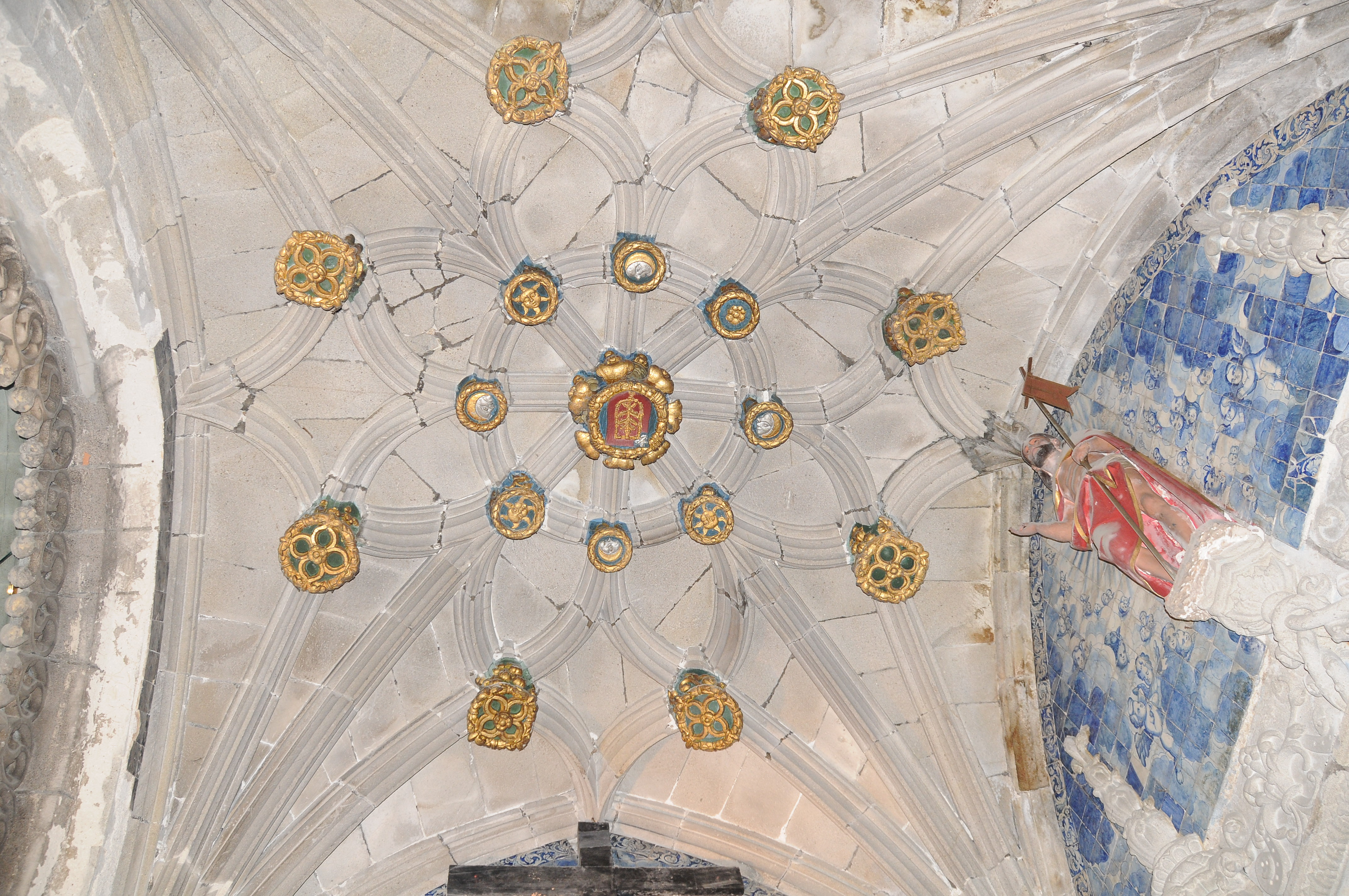 Coimbras Chapel Vault in Braga, Portugal.